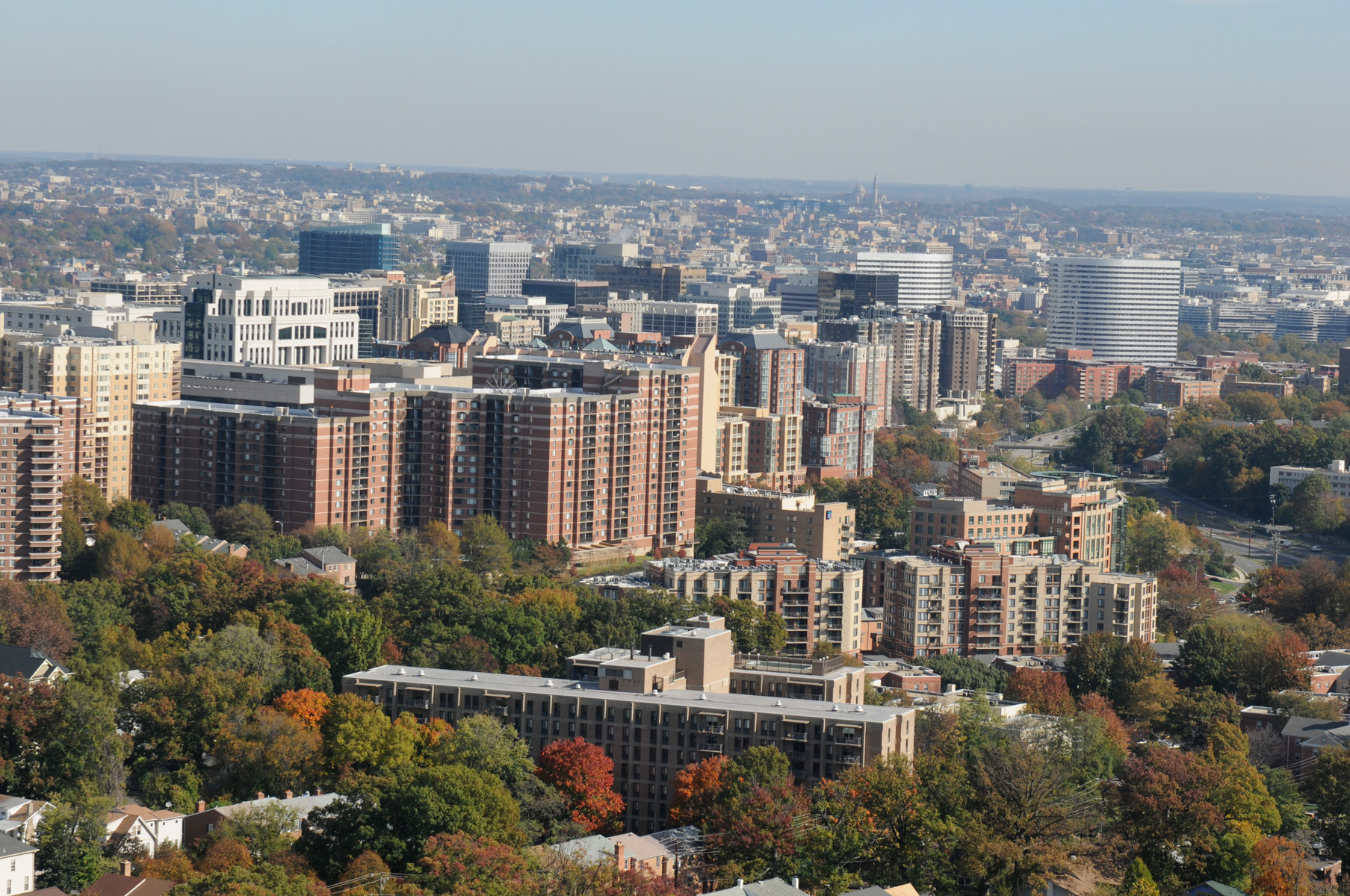 View of Arlington County, Virginia, USA.